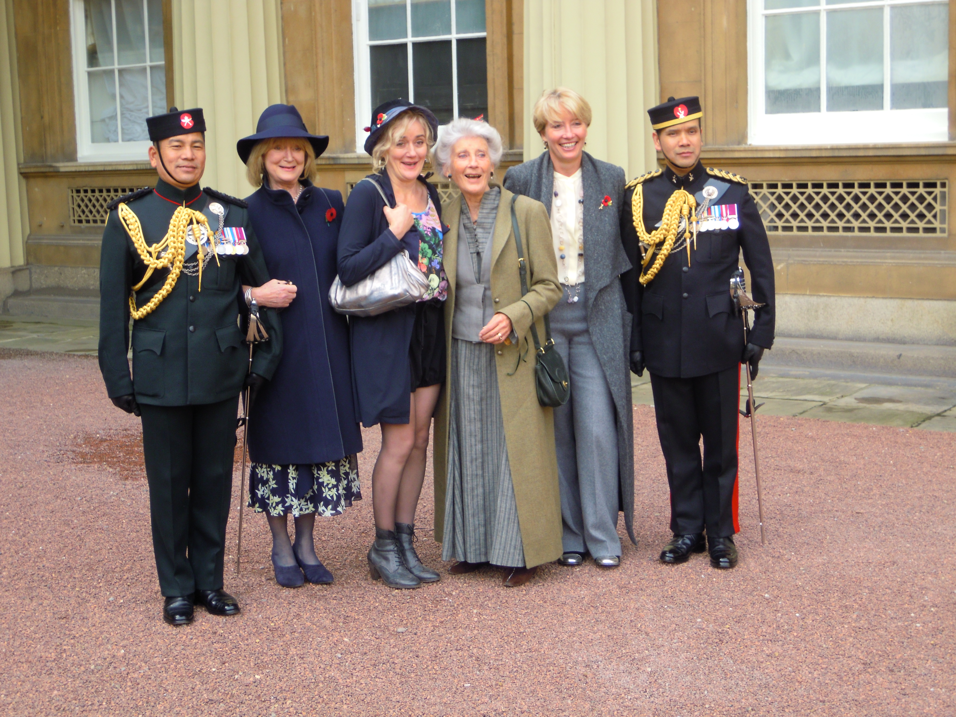 Photograph of actress Phyllida Law (centre) flanked by her daughters Sophie Thompson and Emma Thompson taken at an Investiture at Buckingham Palace when she received the OBE